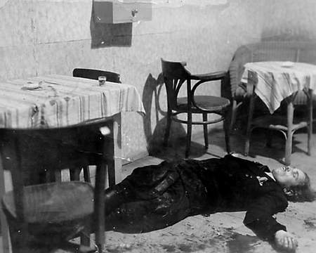 Henryk Flame, soldier National Armed Force, shooted in December,1 1947 in Zabrzeg/Czechowce-Dziedzice/Poland